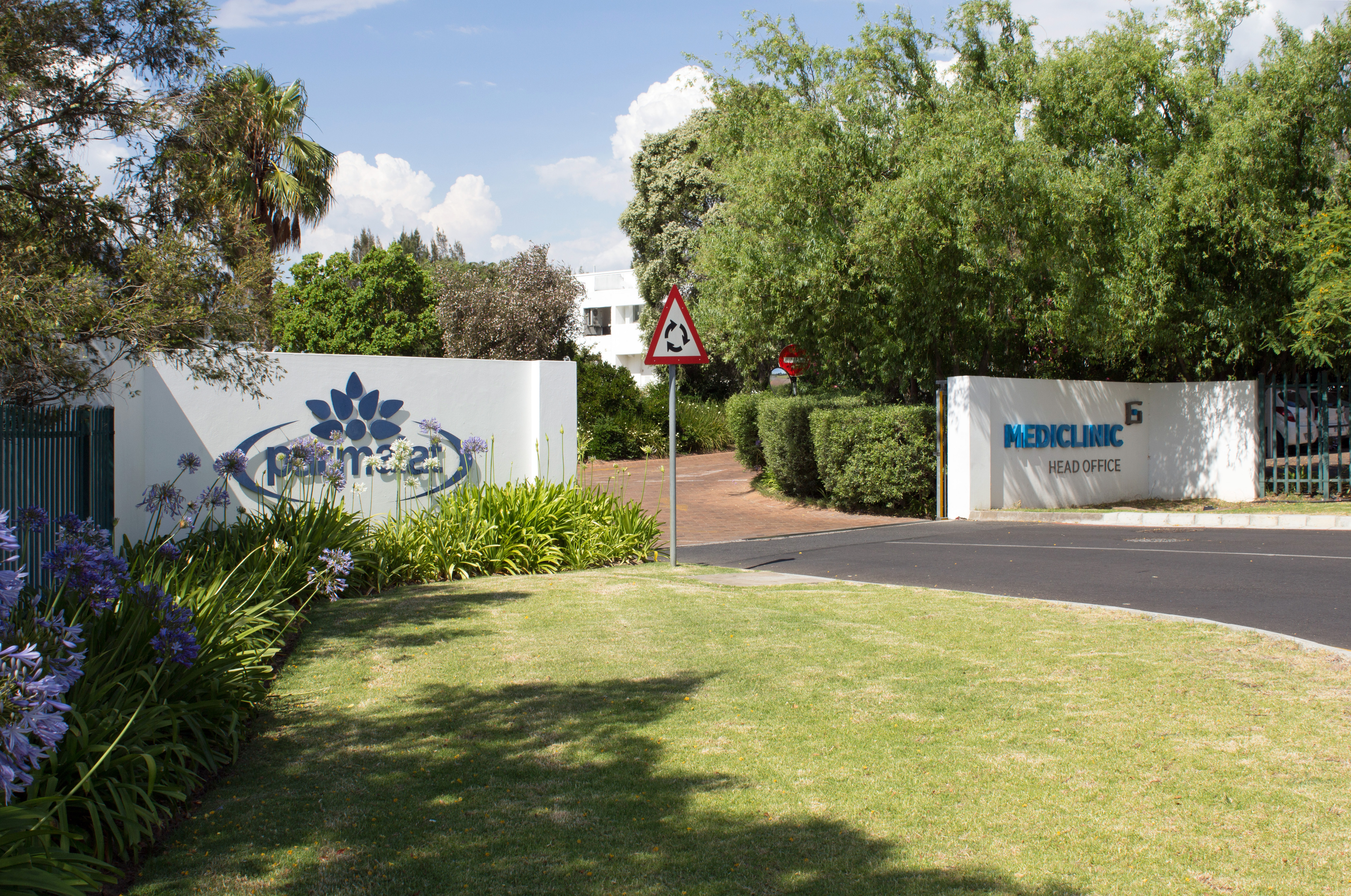 Entrance to Parmalat and Mediclinic offices in Stellenbosch, South Africa